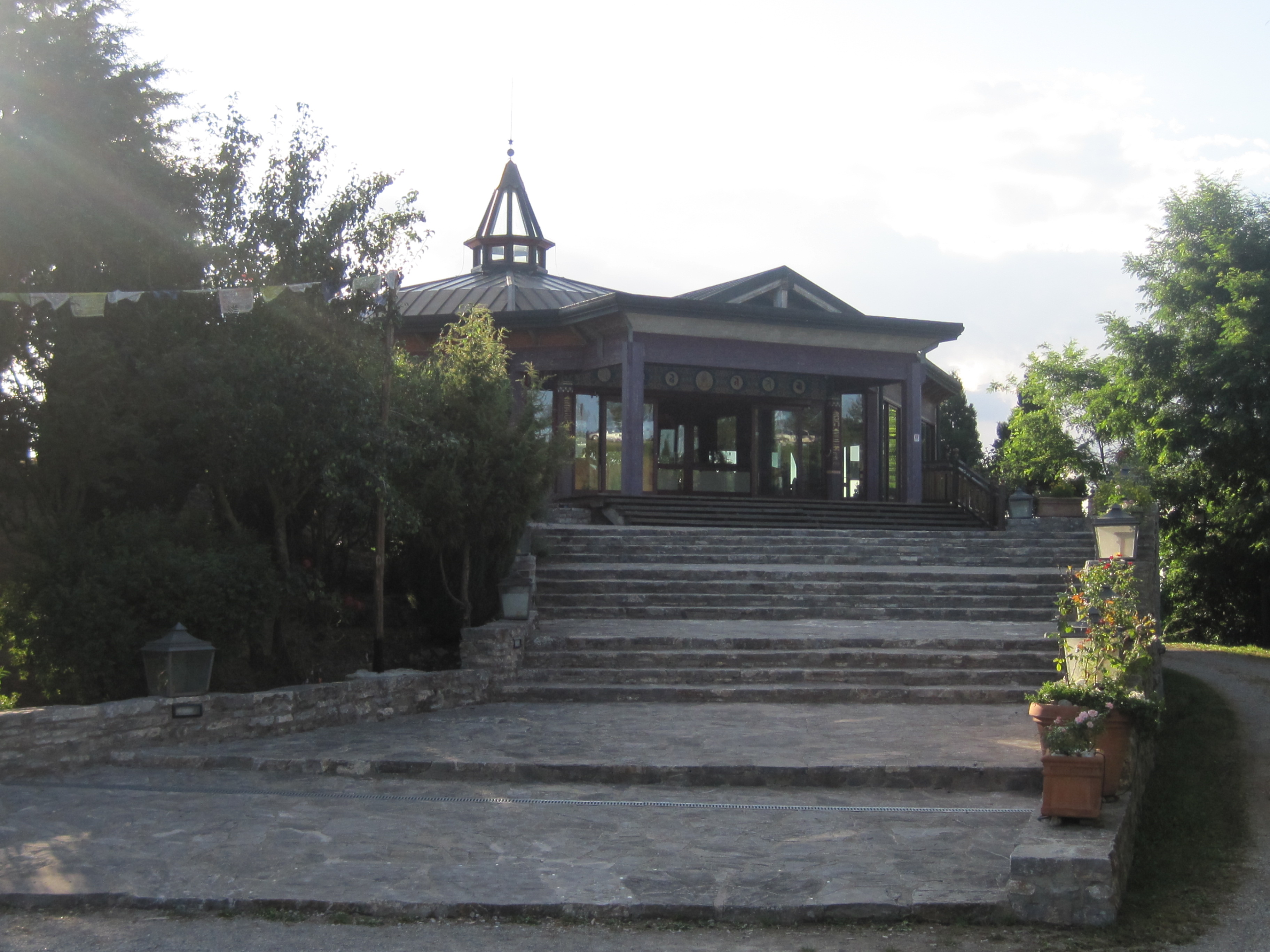 Gompa in Merigar West, Arcidosso (Grosseto)